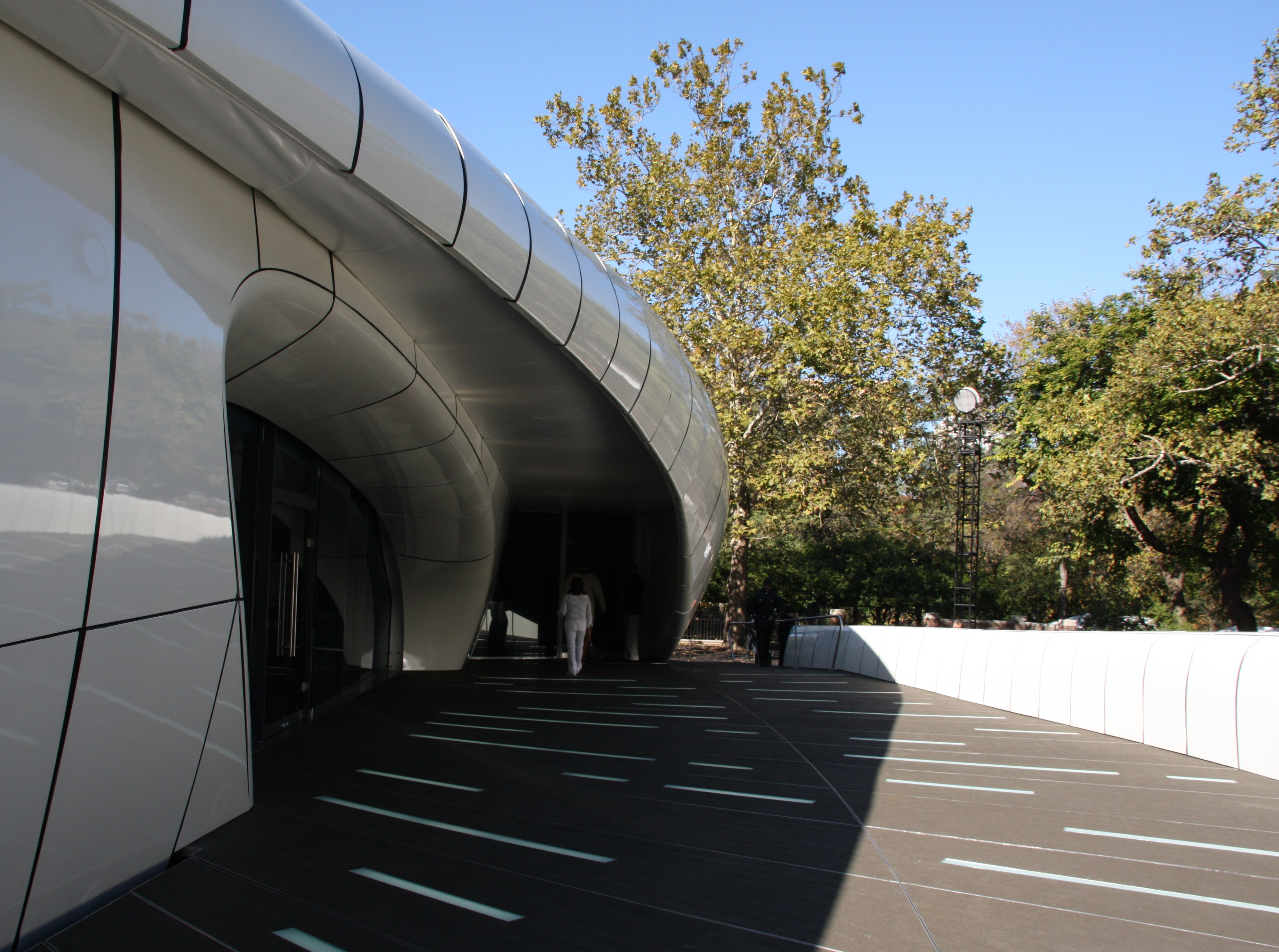 Entrance to the Chanel pavillion in Central Park in New York city, designed by Zaha Hadid